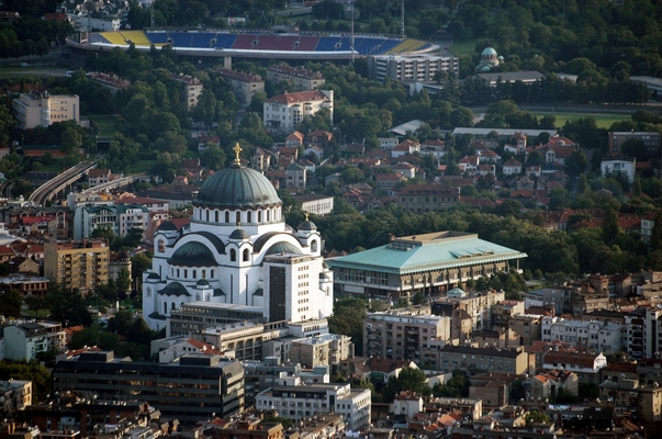 Cathedral of Saint Sava and the National Library of Serbia.